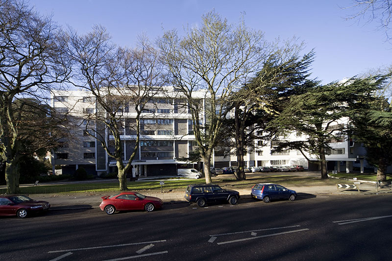 View of the Berthold Lubetkin's Highpoint II Building from the street